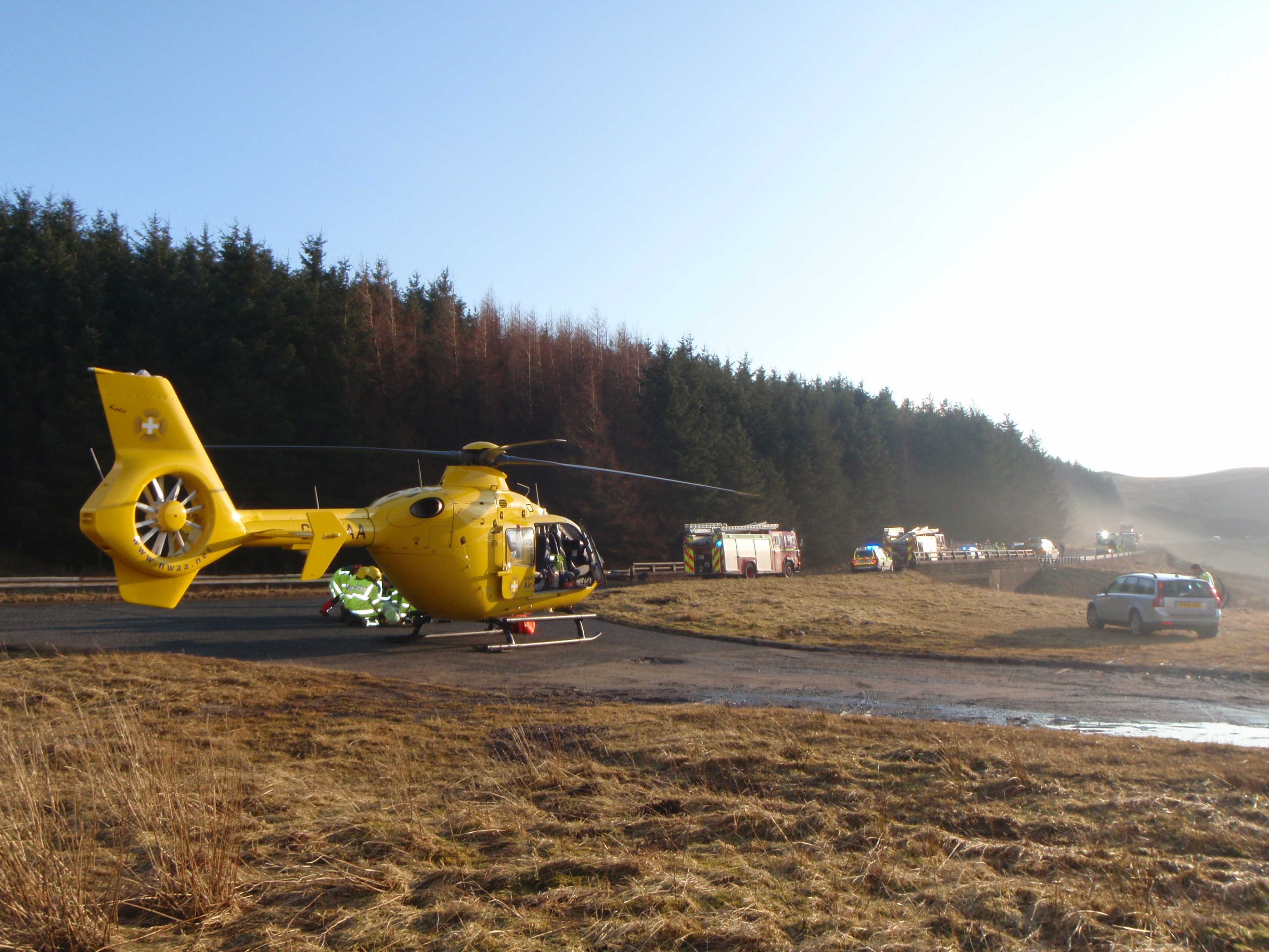 A North West Air Ambulance about to leave an incident in Shap, Eden, Cumbria for Furness General Hospital, Barrow-in-Furness, Cumbria.